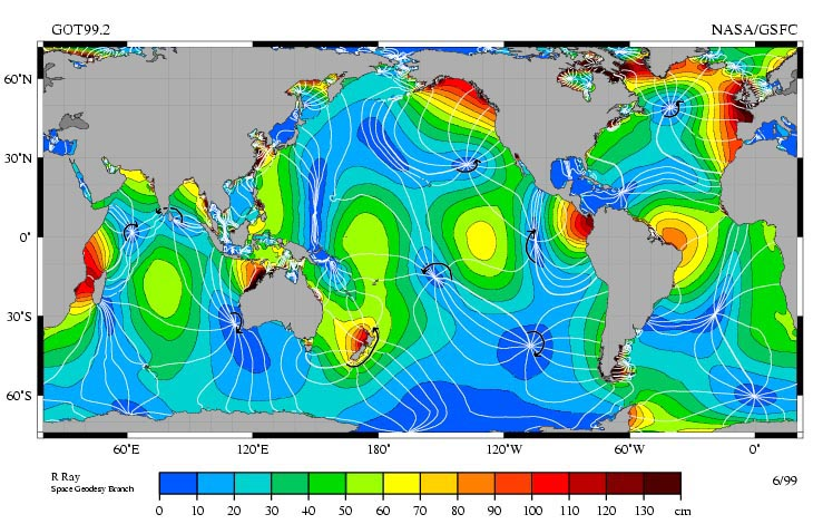 The M2 tidal constituent. Amplitude is indicated by color, and the white lines are cotidal differing by 1 hr. The curved arcs around the amphidromic points show the direction of the tides, each indicating a synchronized 6 hour period.